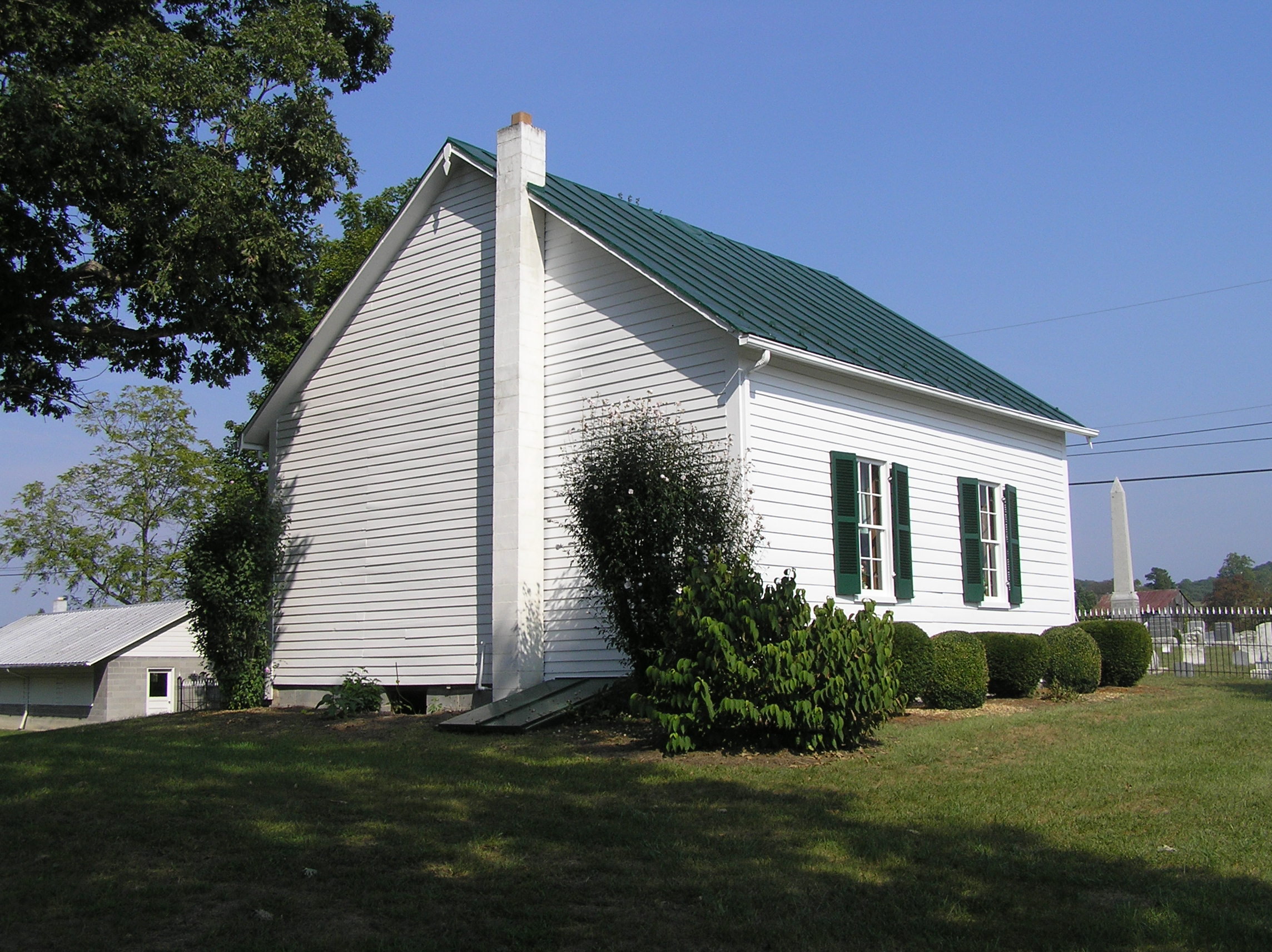 Capon Chapel (c. 1756) and Cemetery on Christian Church Road (County Route 13) near Capon Bridge, West Virginia, United States.